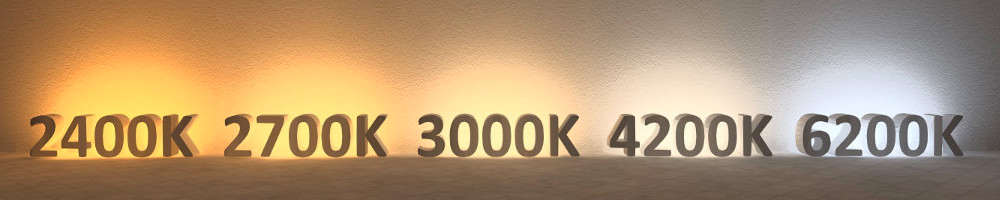 This image is a visual representation used to show the differences between CCTs (correlated color temperatures). It is used in lighting, photography, videography, publishing, manufacturing, astrophysics, horticulture, and other fields.